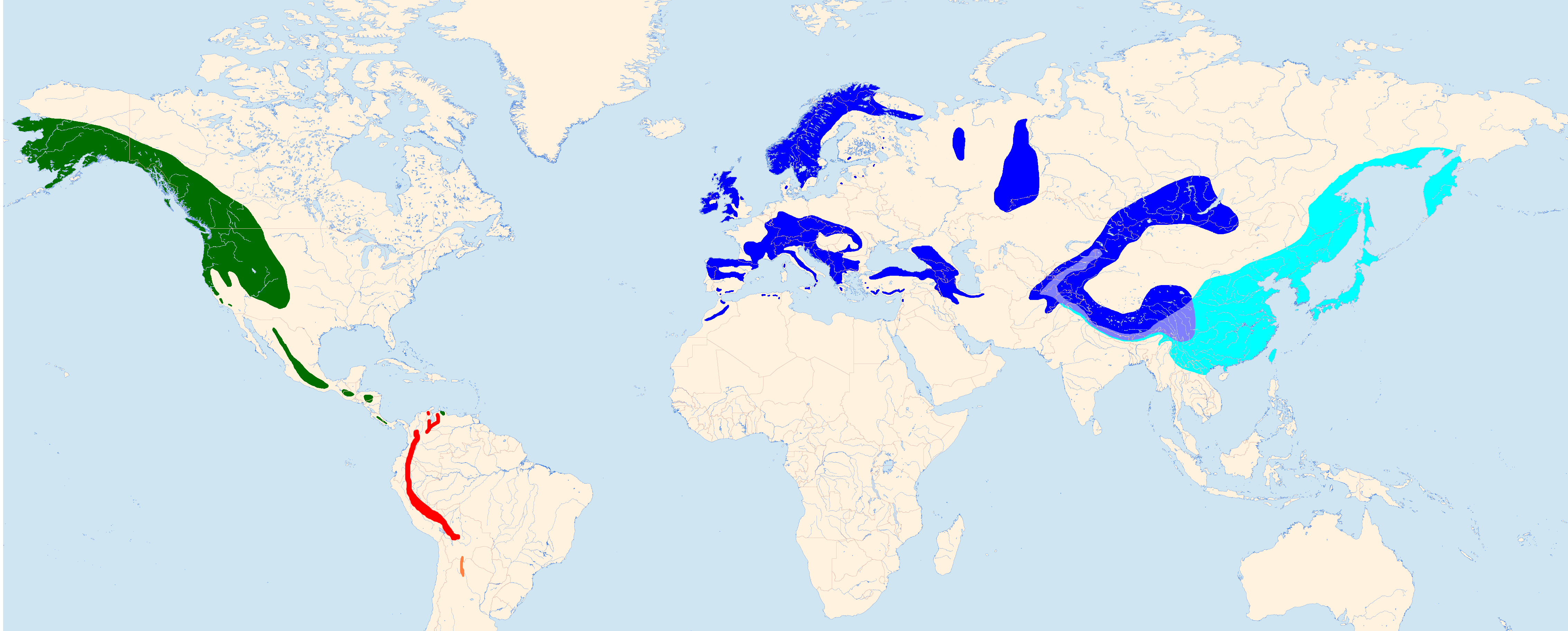 Range Map of Genus Cinclus